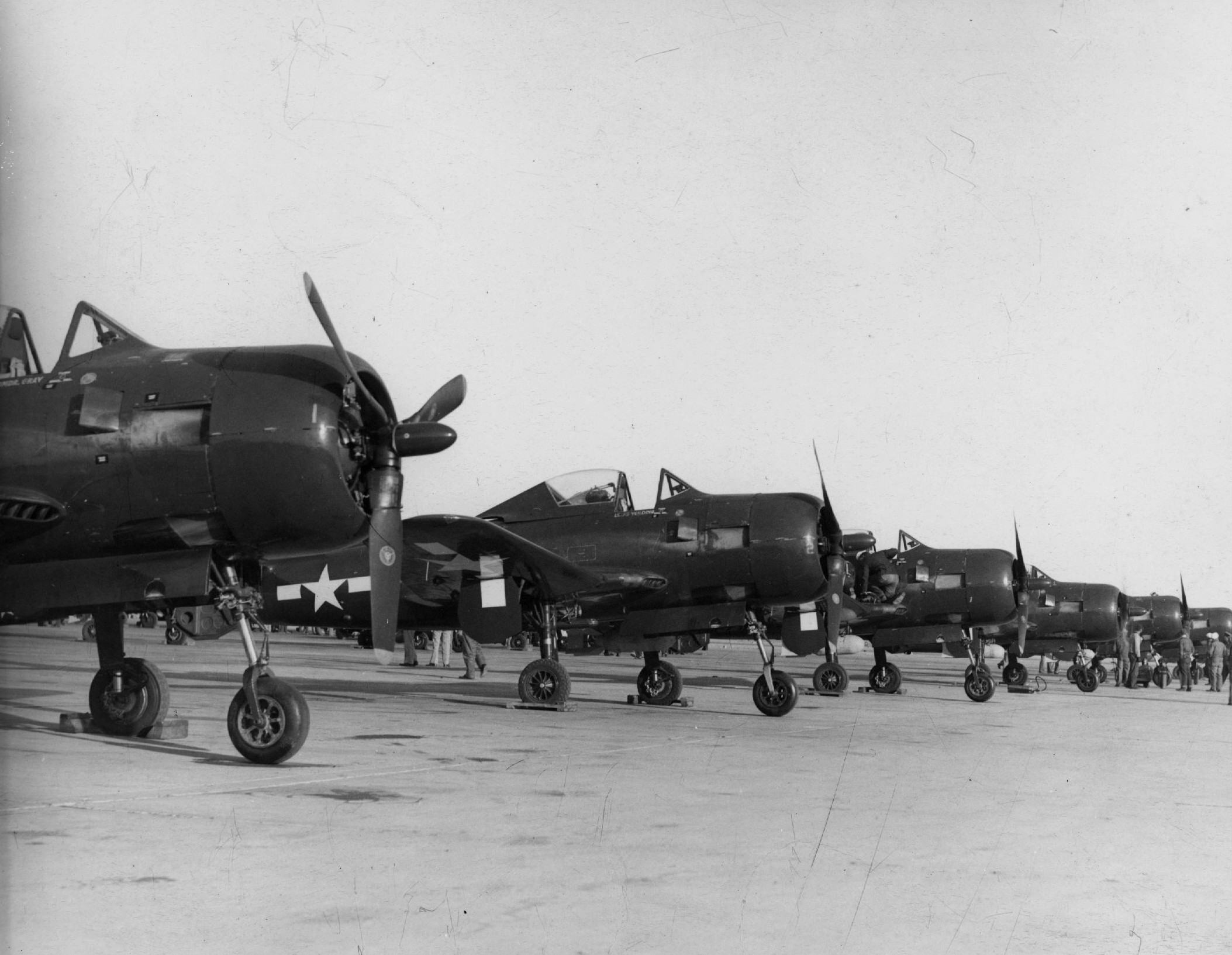 U.S. Navy FR-1 Fireball fighters of fighter squadron VF-66 at Naval Air Station North Island, California (USA), in 1945.